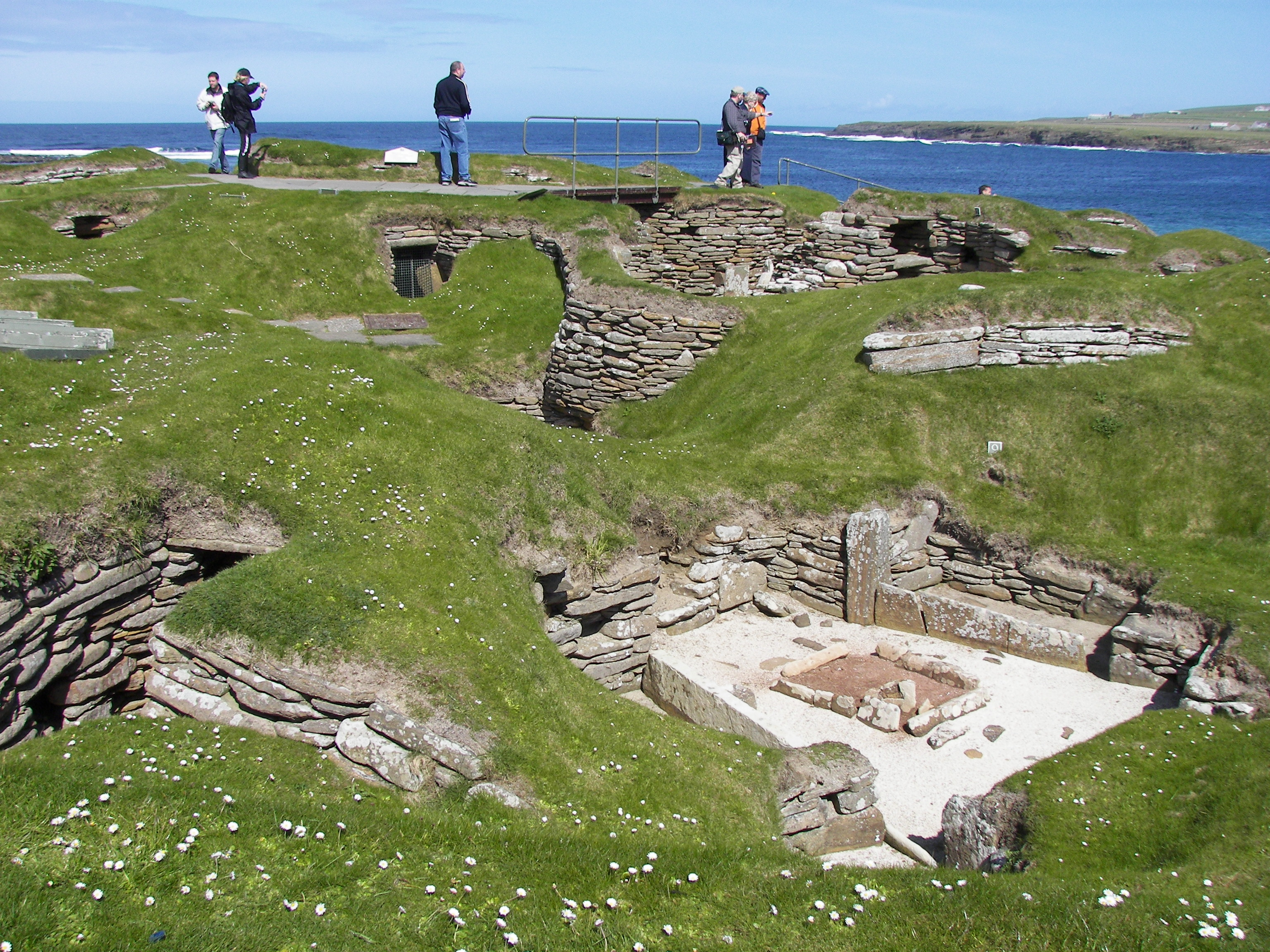 House 9 of Skara Brae.